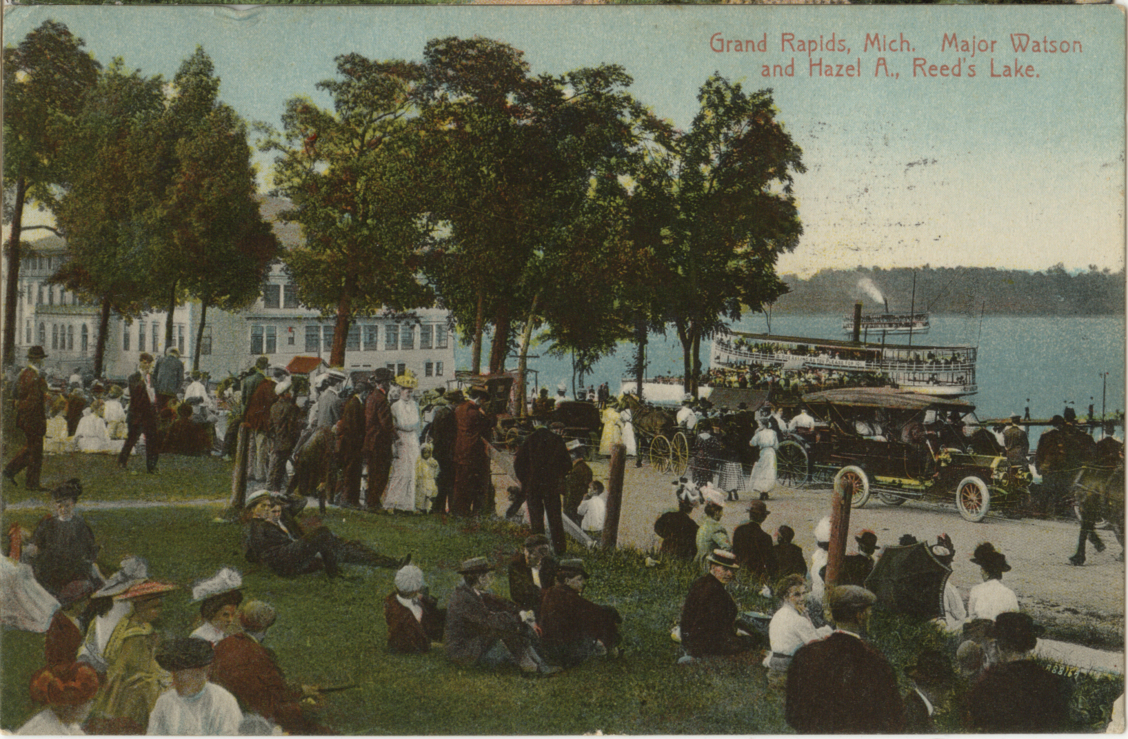 Grand Rapids, MI. [the two ships] Major Watson and Hazel A., Reeds Lake. Hugh S. Leighton Co., Manufacturers, Portland, ME, USA. Postcard - 002.